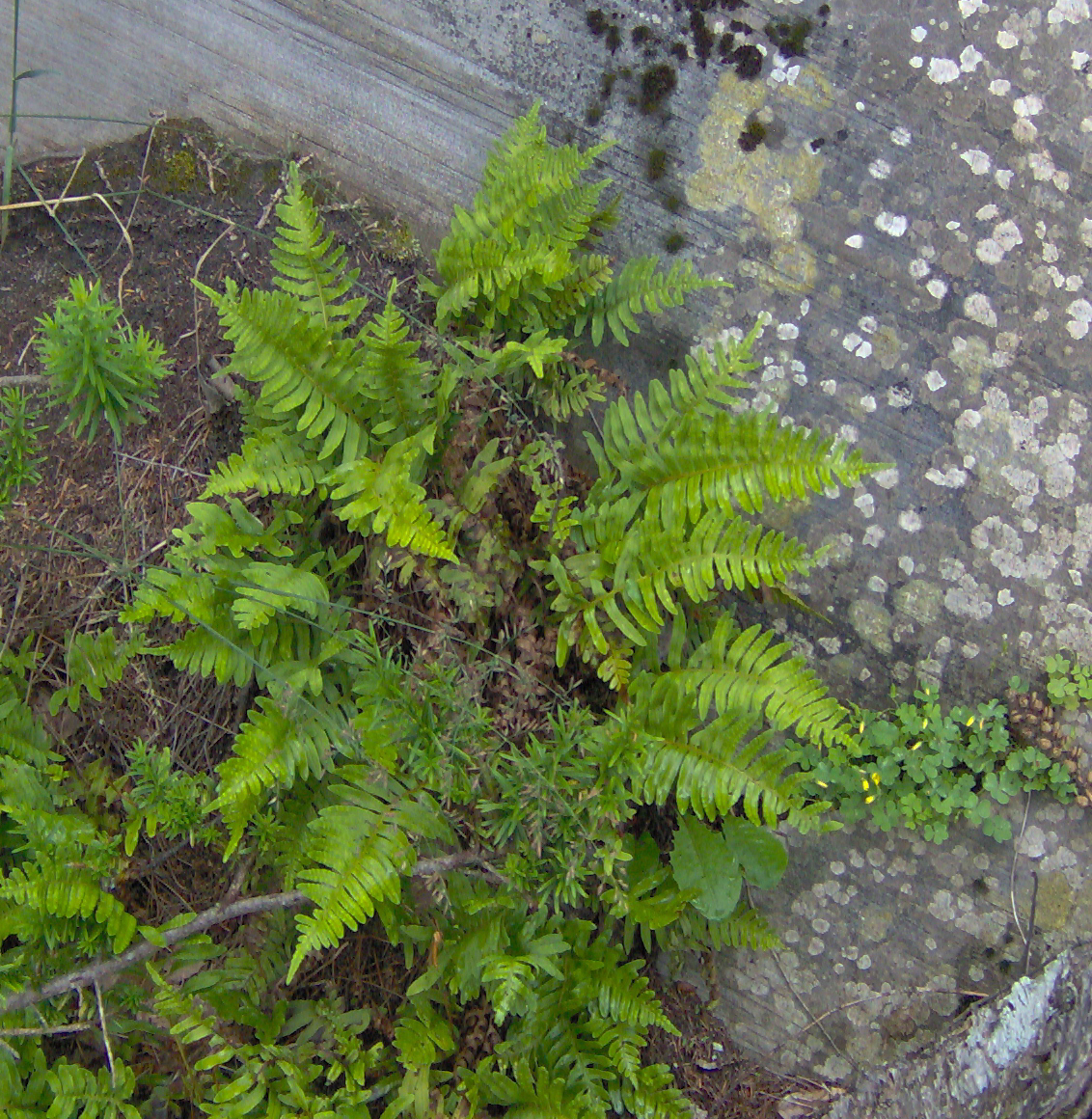 Polypodium appalachianum photo taken at Gandy Spring, West Virginia